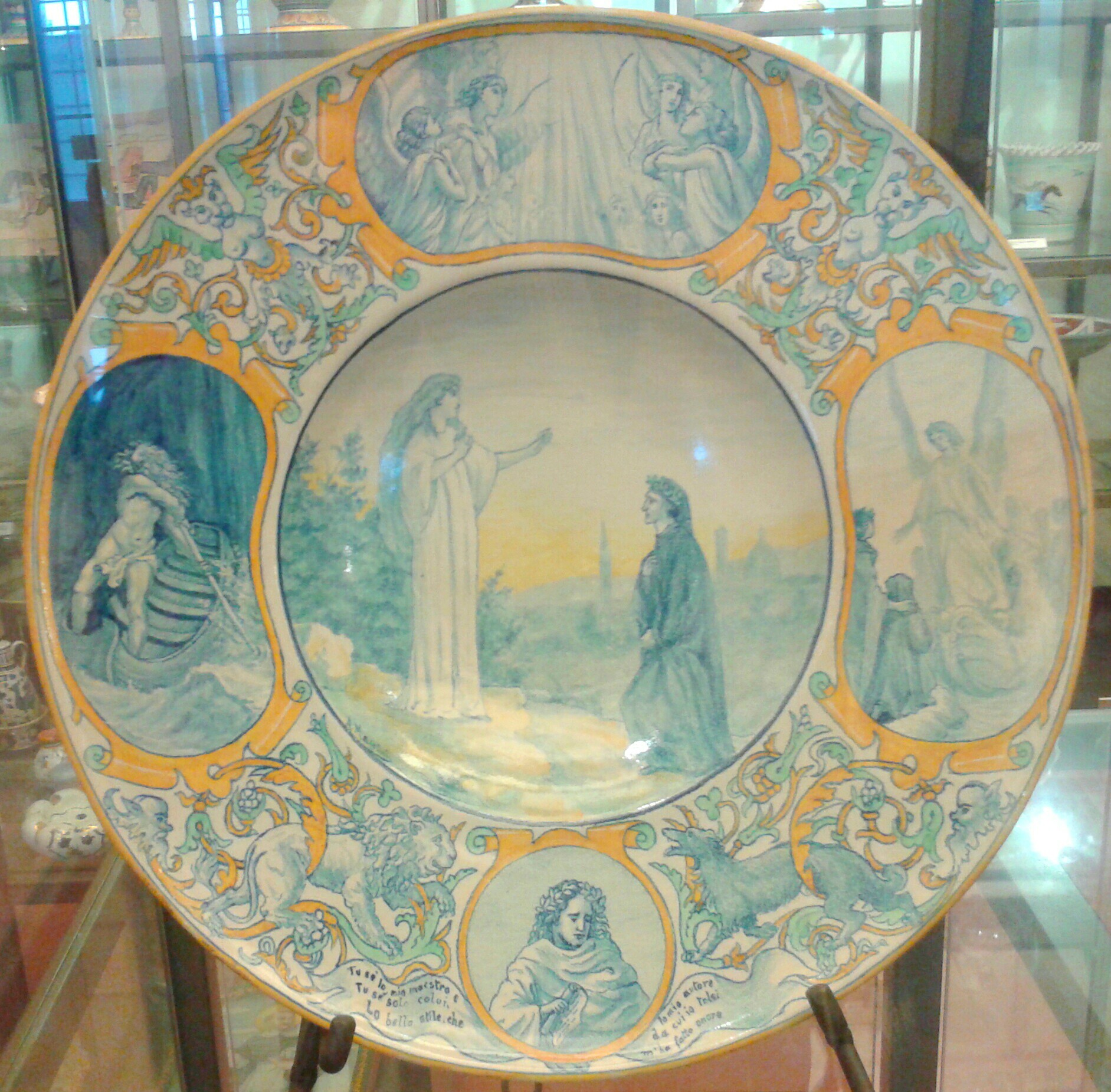 Alpinolo Magnini, piatto con rappresentazioni della Divina Commedia, 1897, Deruta, Museo della Fabbrica Grazia